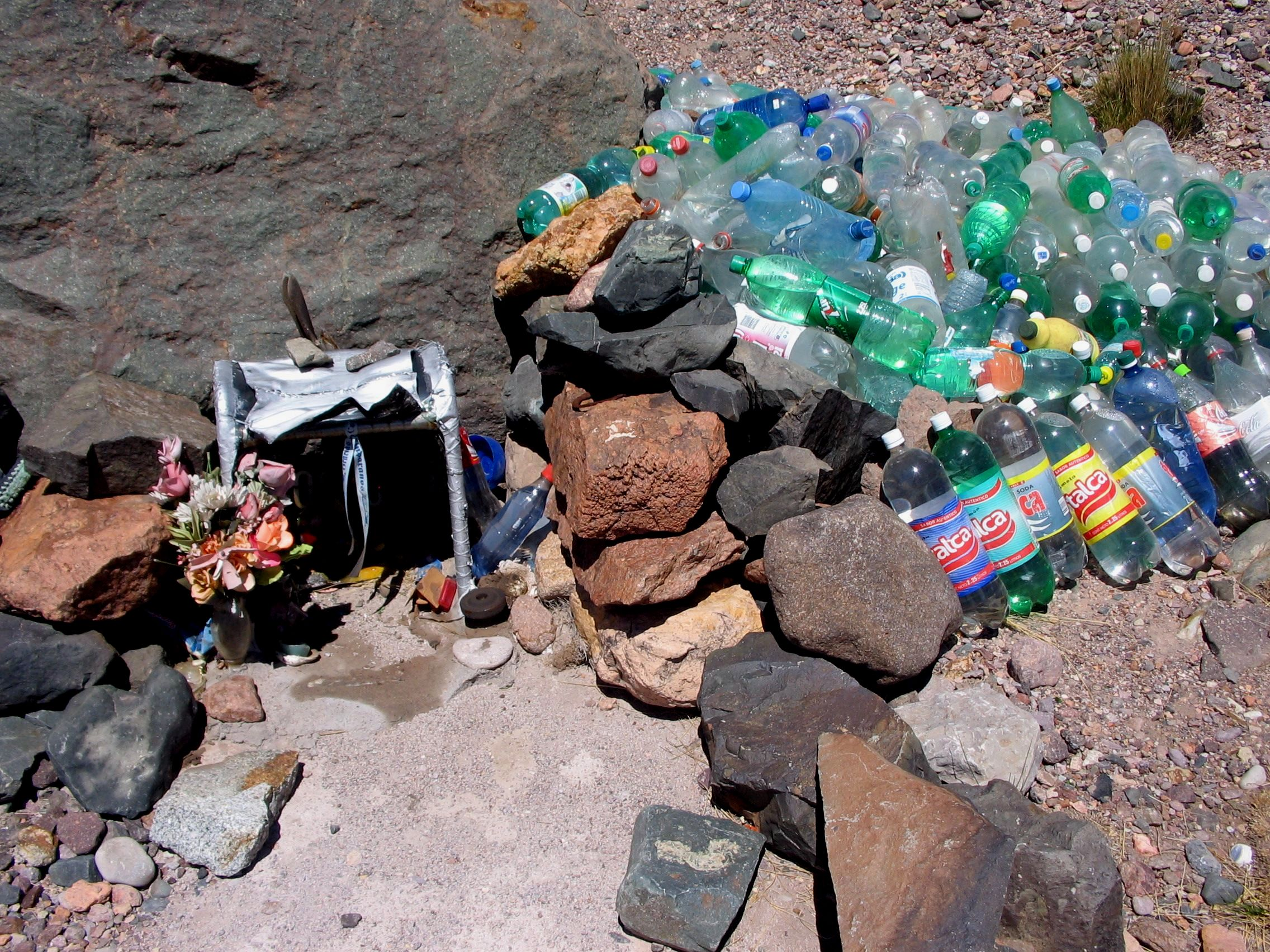 A shrine for the Defunta Correa in the road to Uspallata (Argentina) Photographed by Muriel Gottrop in October 2006.